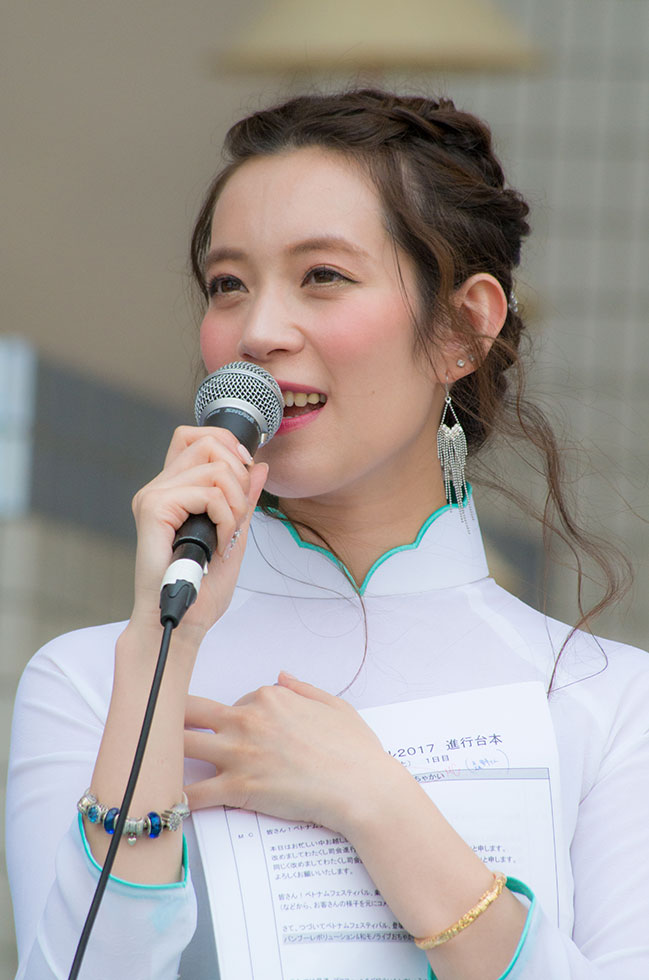 Phuong Chi (FONCHI) is a Vietnamese actress active in Japan, she was born and raised in Japan.